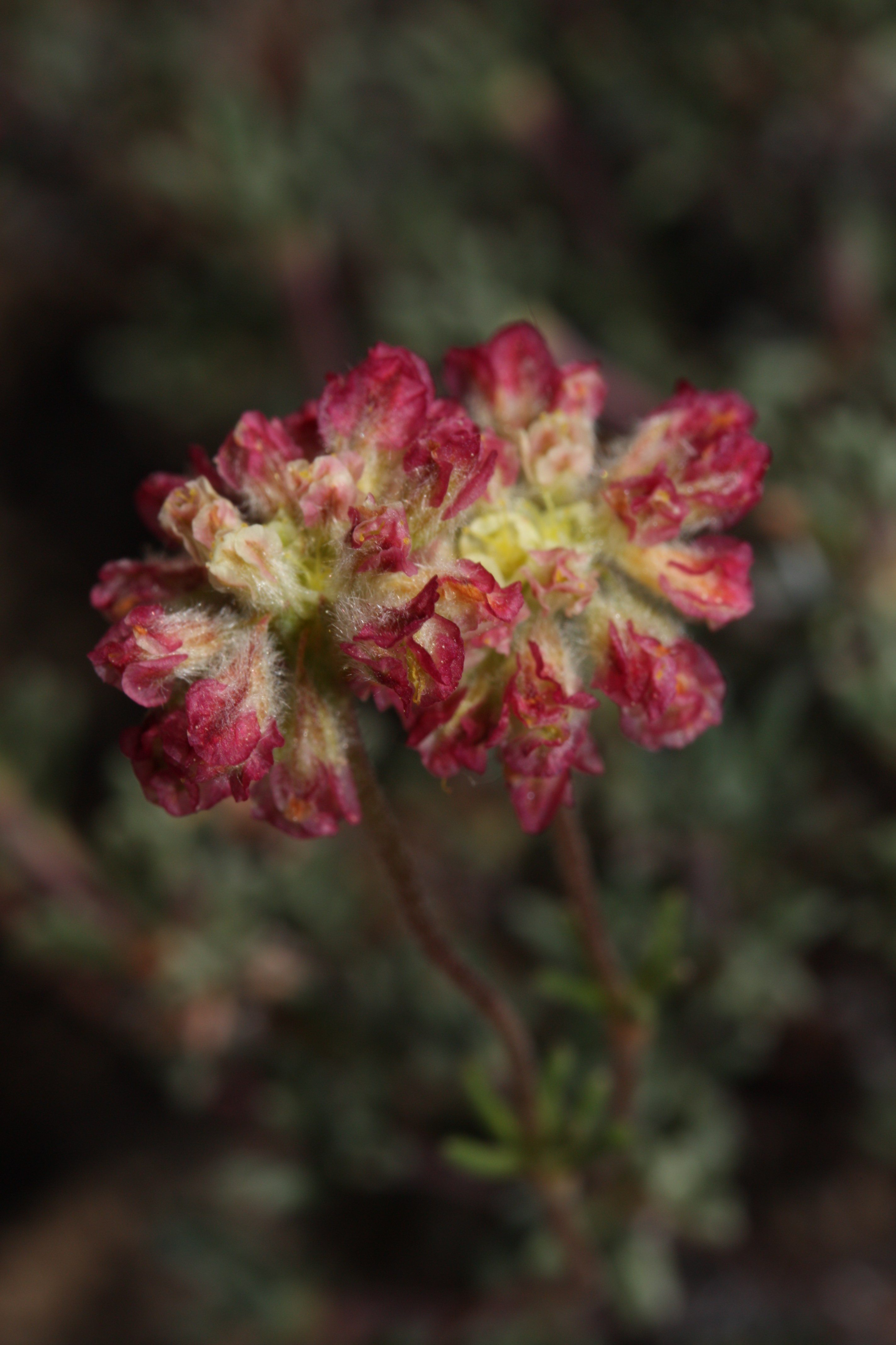 Thyme-leaf Wild Buckwheat